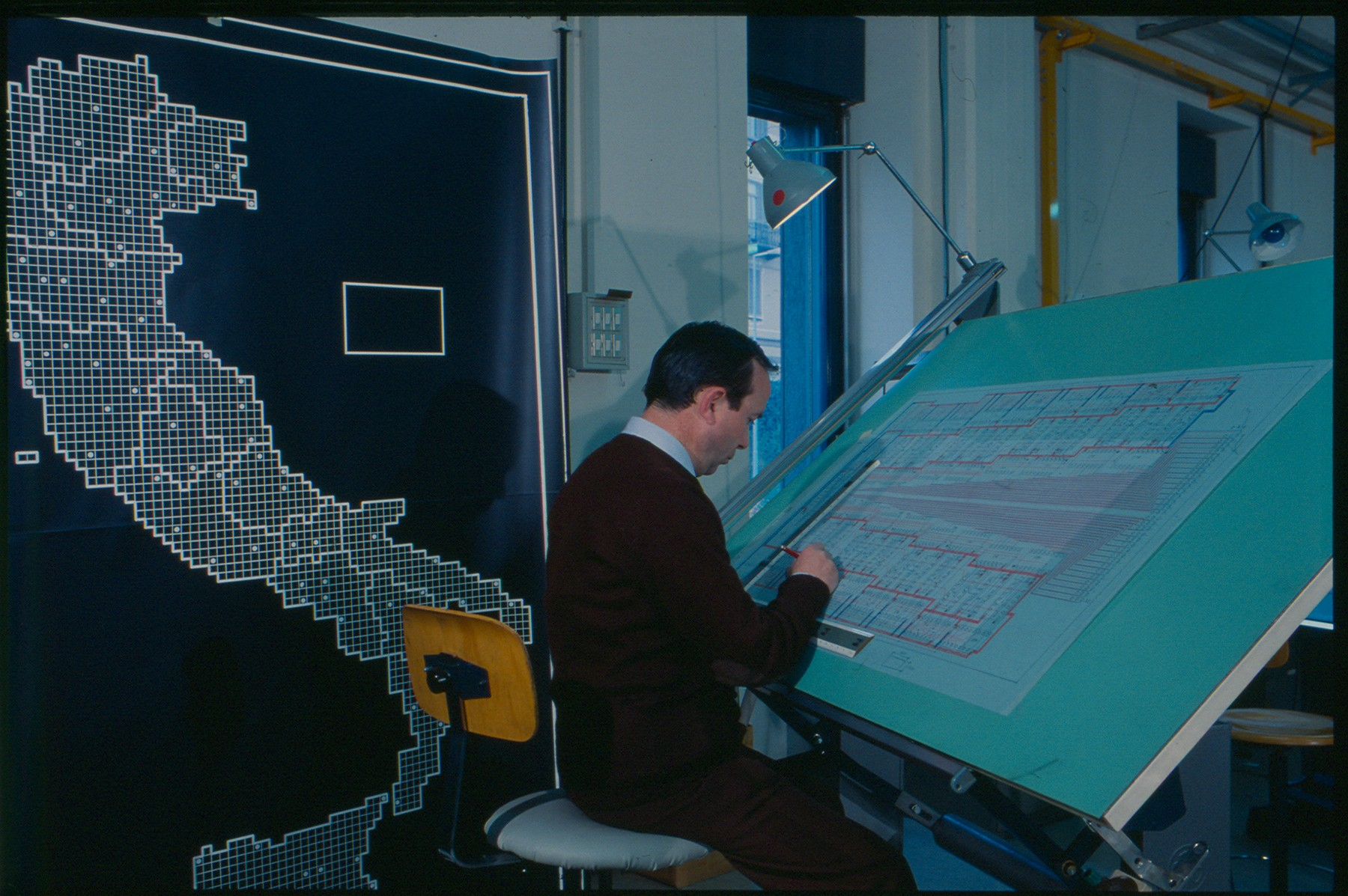 L’Officina SIP di Torino, s.d.